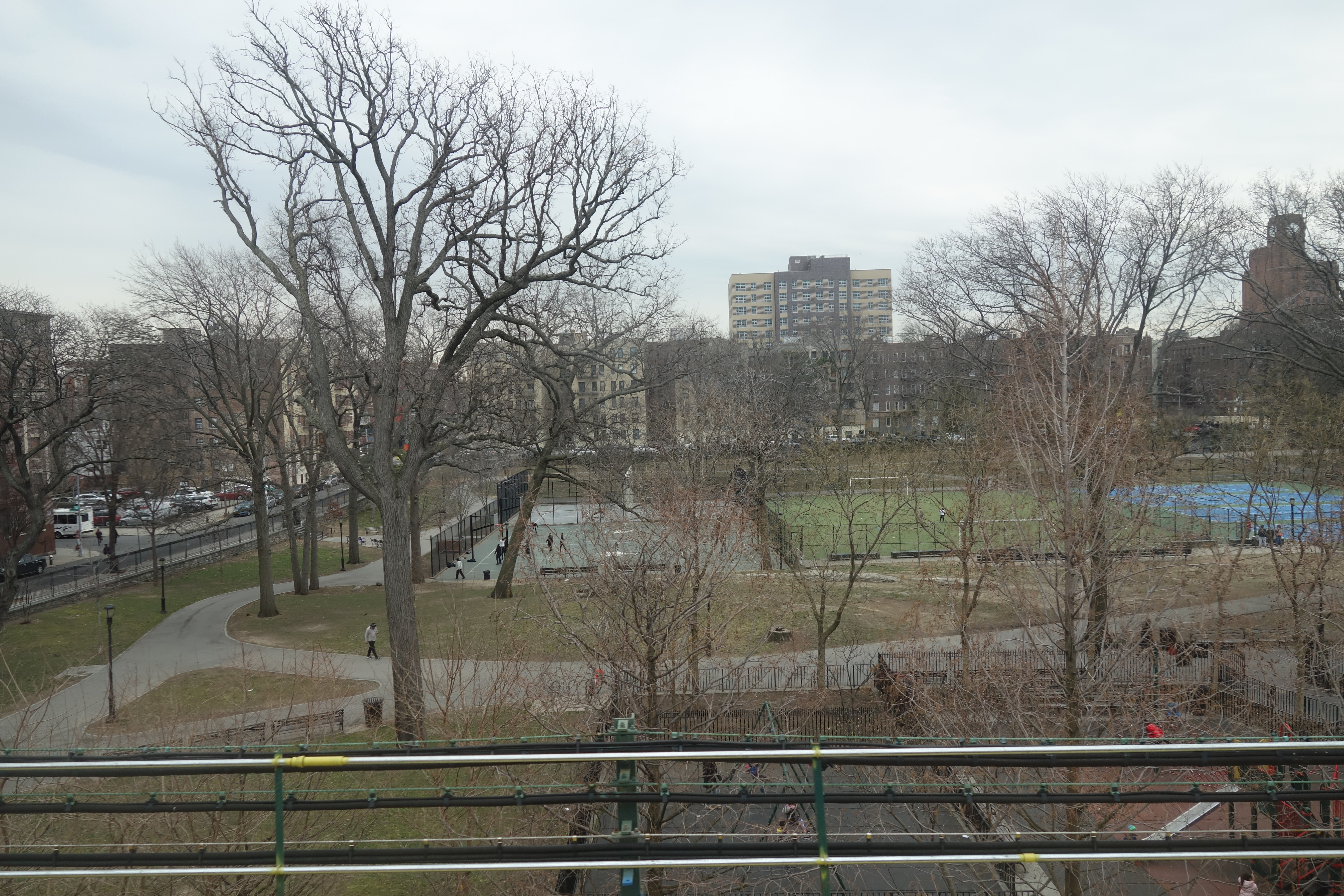 Looking east at St. James Park from a 4 express train approaching the Kingsbridge Road station, above Jerome Avenue and East 193rd Street in Fordham Manor, Bronx.